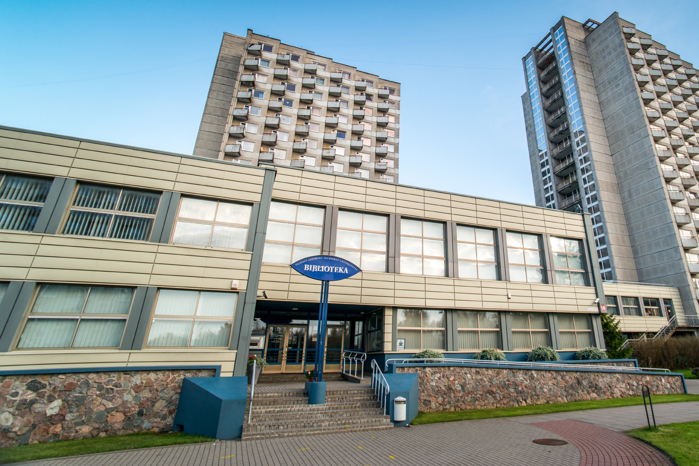 VGTU biblioteka